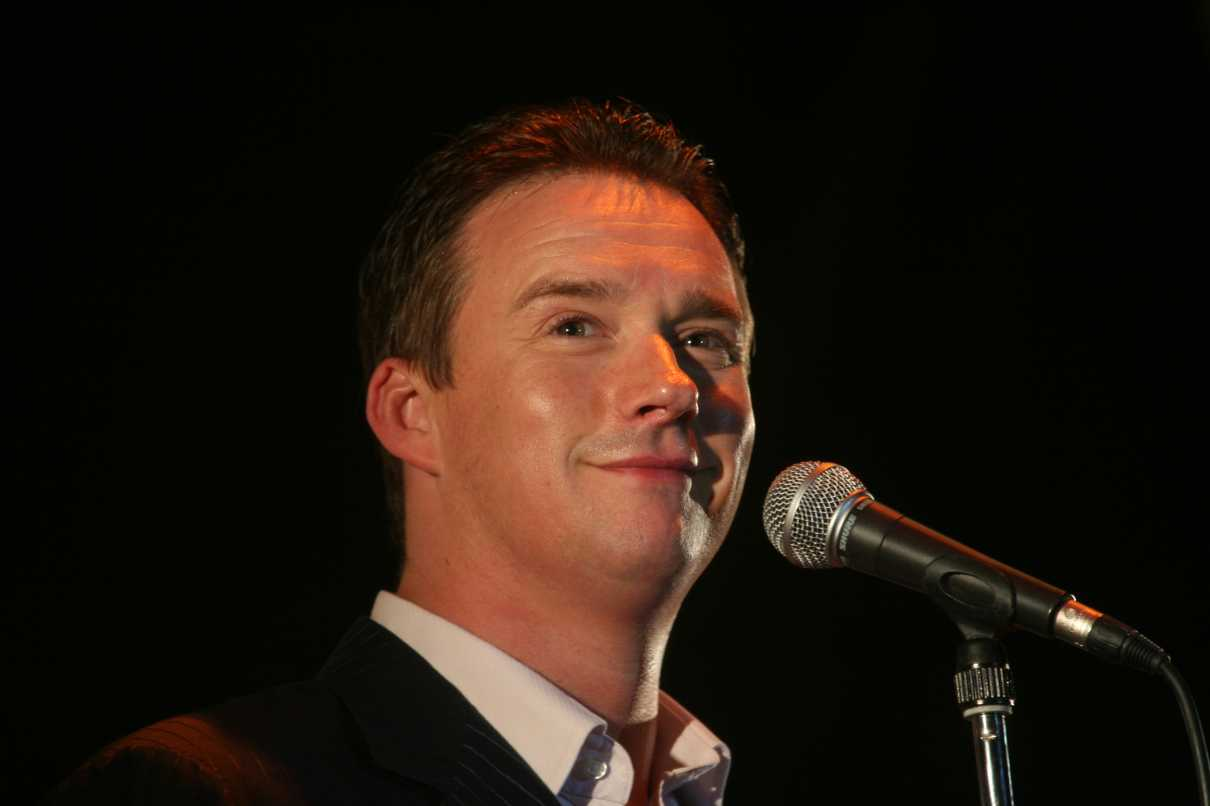 British tenor from England Russell Watson performing at Broadlands in Hampshire, England.